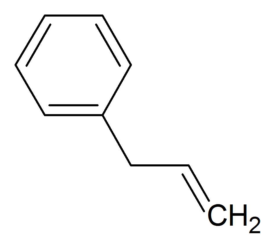 Allylbenzene